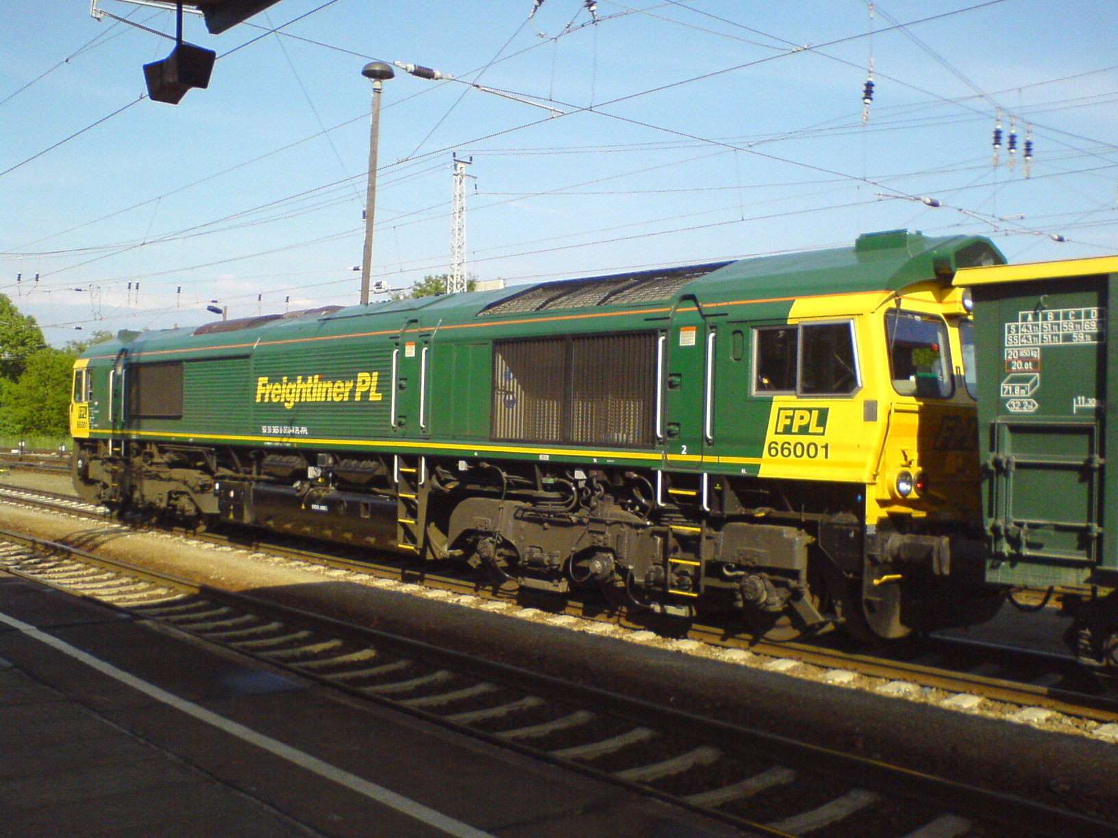 FreightlinerPL 66001 JT42CWRM Electro-Motive Diesel (EMD) diesel locomotive